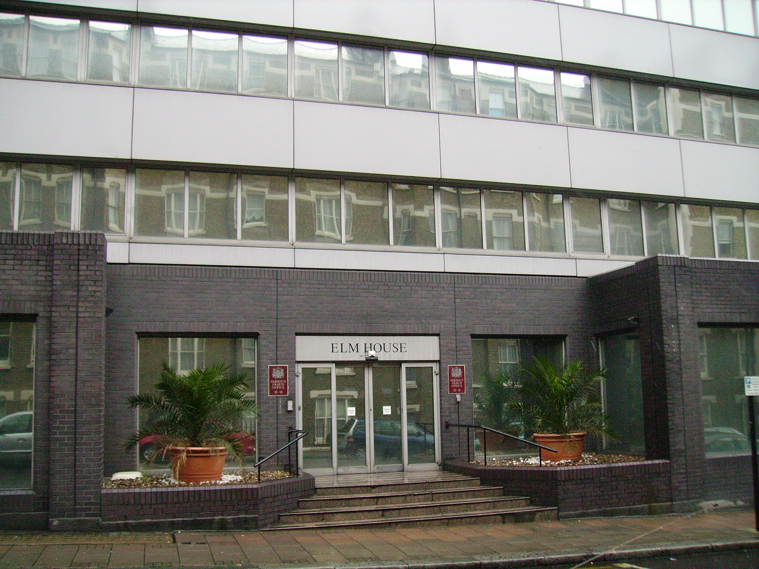 Entrance to the Serious Fraud Office, 10-16 Elm Street, London